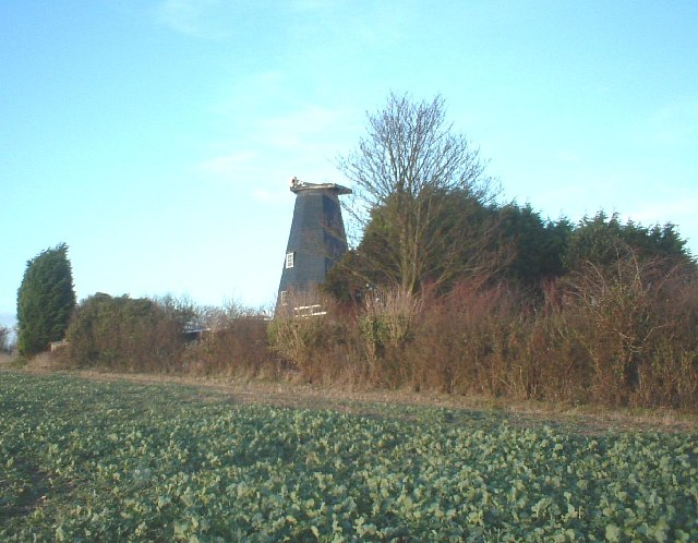 The New Mill, Northbourne New Mill was built by Holman brothers, the Canterbury millwrights in 1848. It can nowadays be booked for holidays and bed and breakfast.